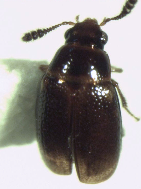 Microsilpha sp. (New Zealand)